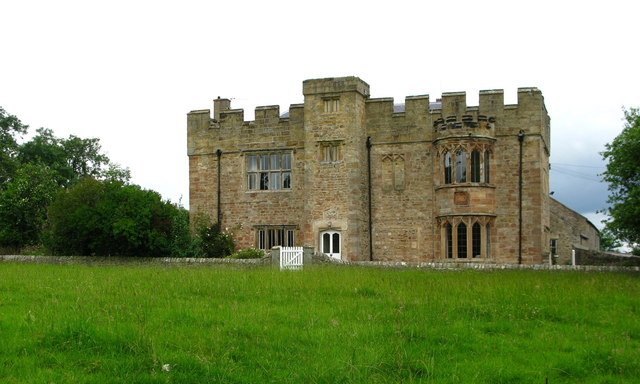 Hipswell Hall Hipswell Hall is a 15th-century fortified manor house built for the Fulthorpe family, whose coat of arms is carved on the bay window to the right. The estate passed to the Wandesfords of Kirklington, and over the front door is a plaque dated 1596 with the initials of George Wandesford.